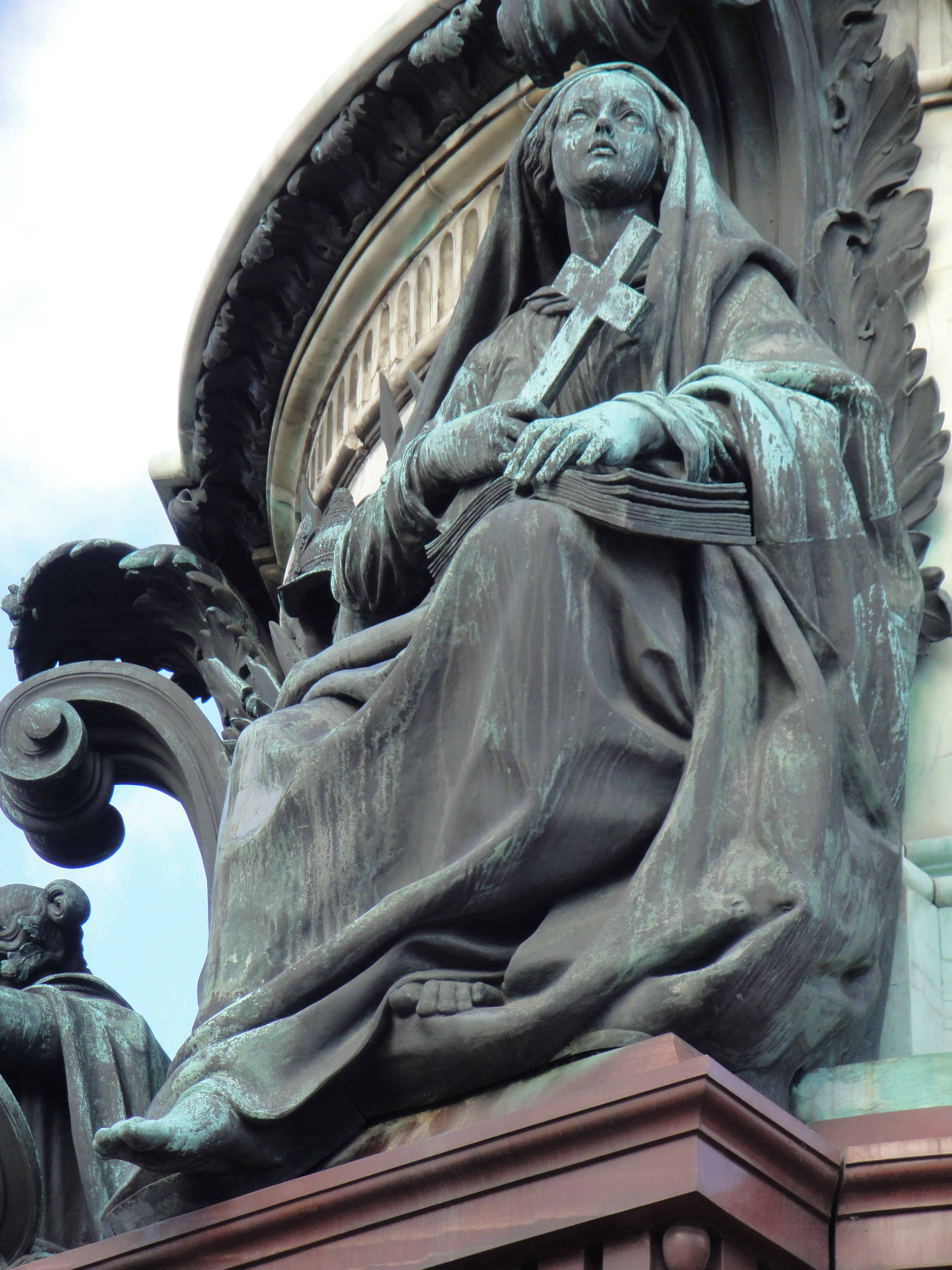 Allegorical figure of "faith" on the pedestal of the monument to Nicholas I